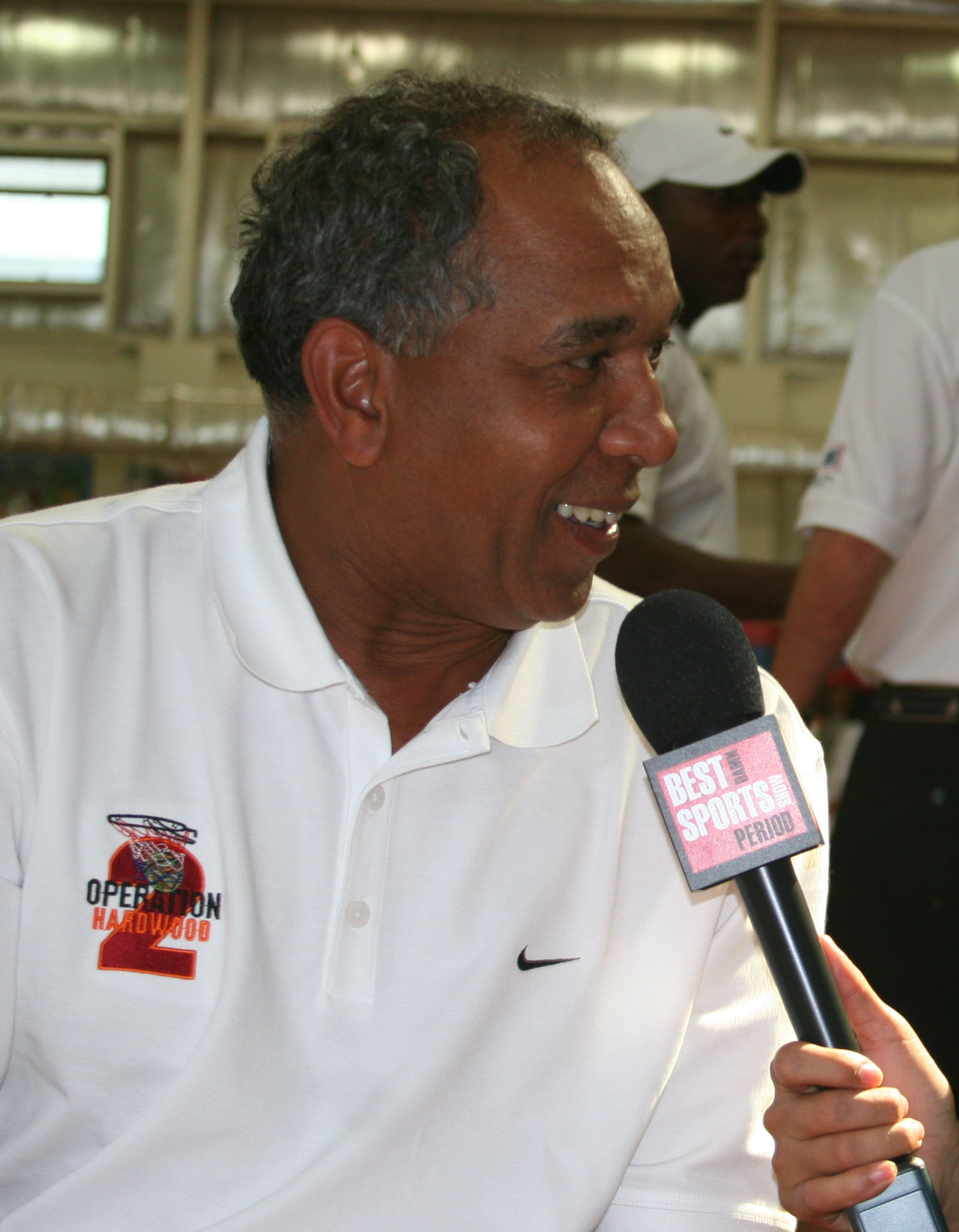 Camp Arifjan, KW - Tubby Smith, University of Kentucky head coach, is interviewed by Leeann Tweeden, "Best Damn Sports Show" correspondent during the Operation Hardwood II basketball tournament May 24 at Camp Arifjan.